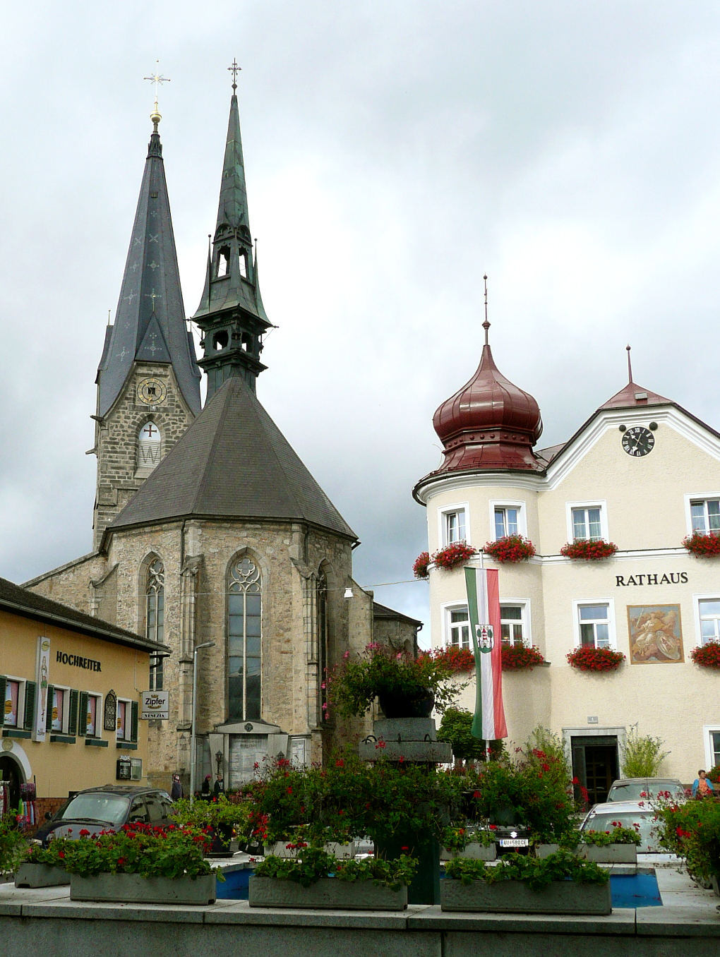 Church and Town hall in Bad Leonfelden, Upper Austria